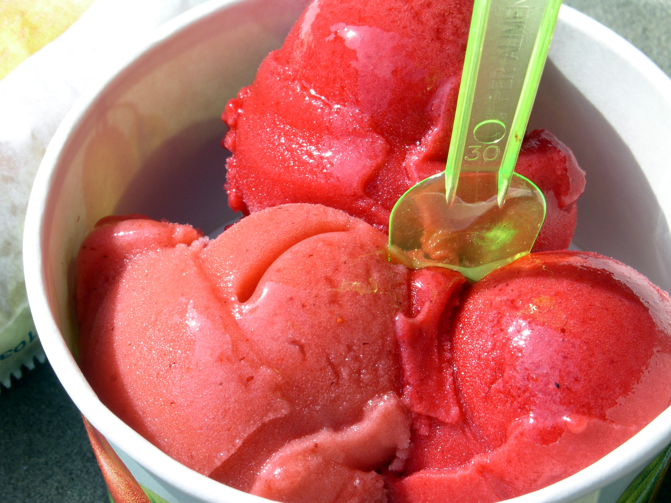 Sorbet